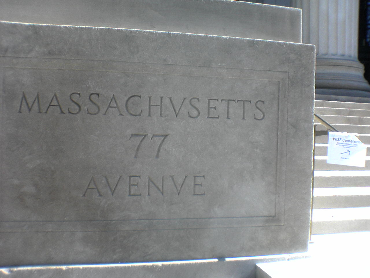 The stone pillar in front of the MIT building on Massachusetts Ave.